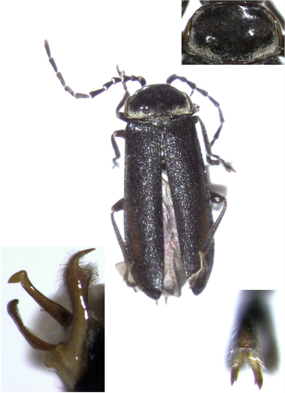 adult male Asilis nigricans with details of genitalia, feet and thorax (insets). 42°39′S 172°22′E / 42.65°S 172.367°E, Hurunui District, Canterbury Region, New Zealand. Donut (0.69ha), Forest 2m Canopy, 14 days (#702), RK Didham 01-Jan-01.